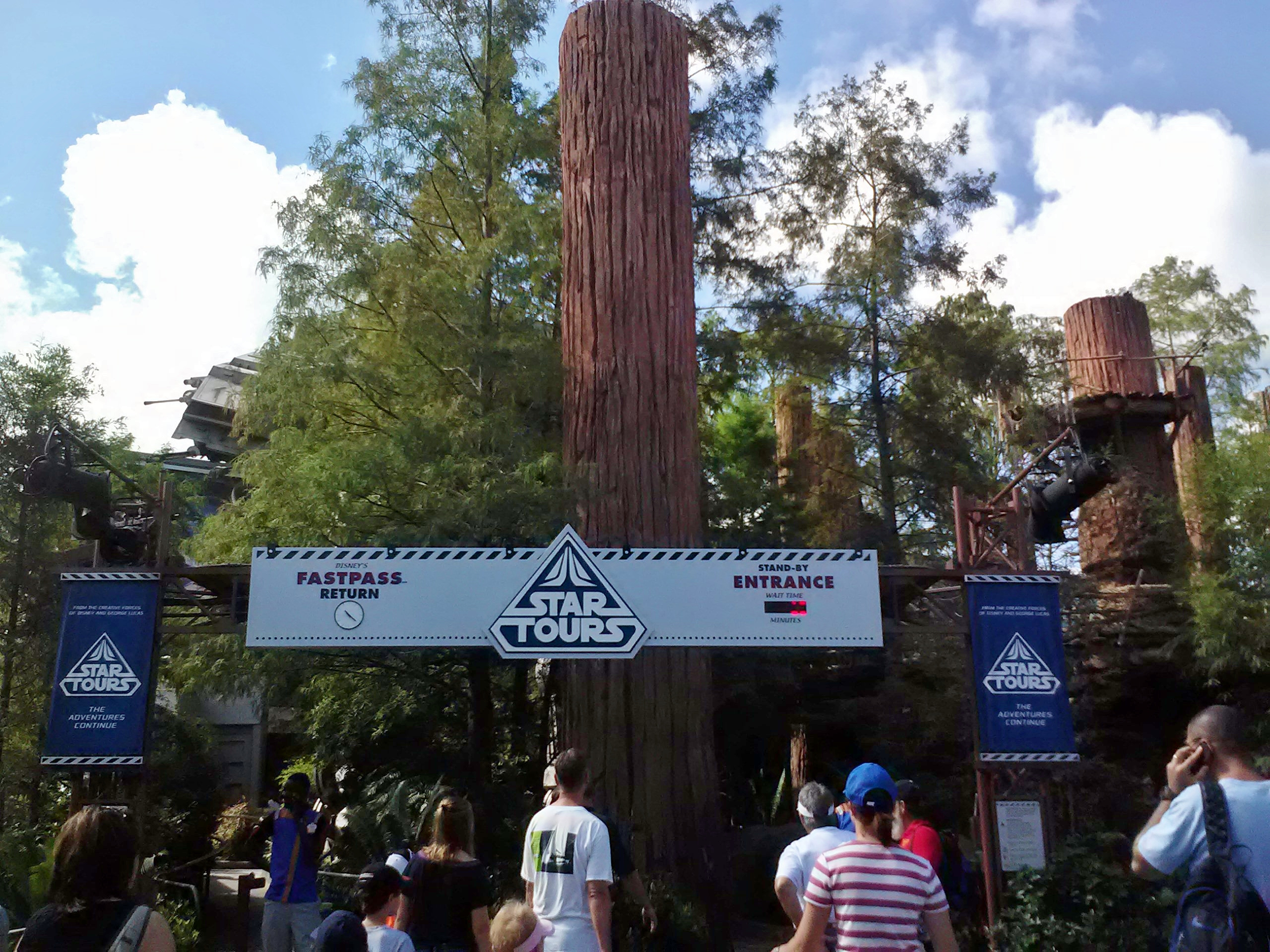 The exterior and entrance to Star Tours—The Adventures Continue attraction at Disney's Hollywood Studios.